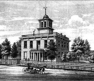 Schuyler County Courthouse in Lancaster, Missouri. As sketched in 1878. The building has since been replaced.